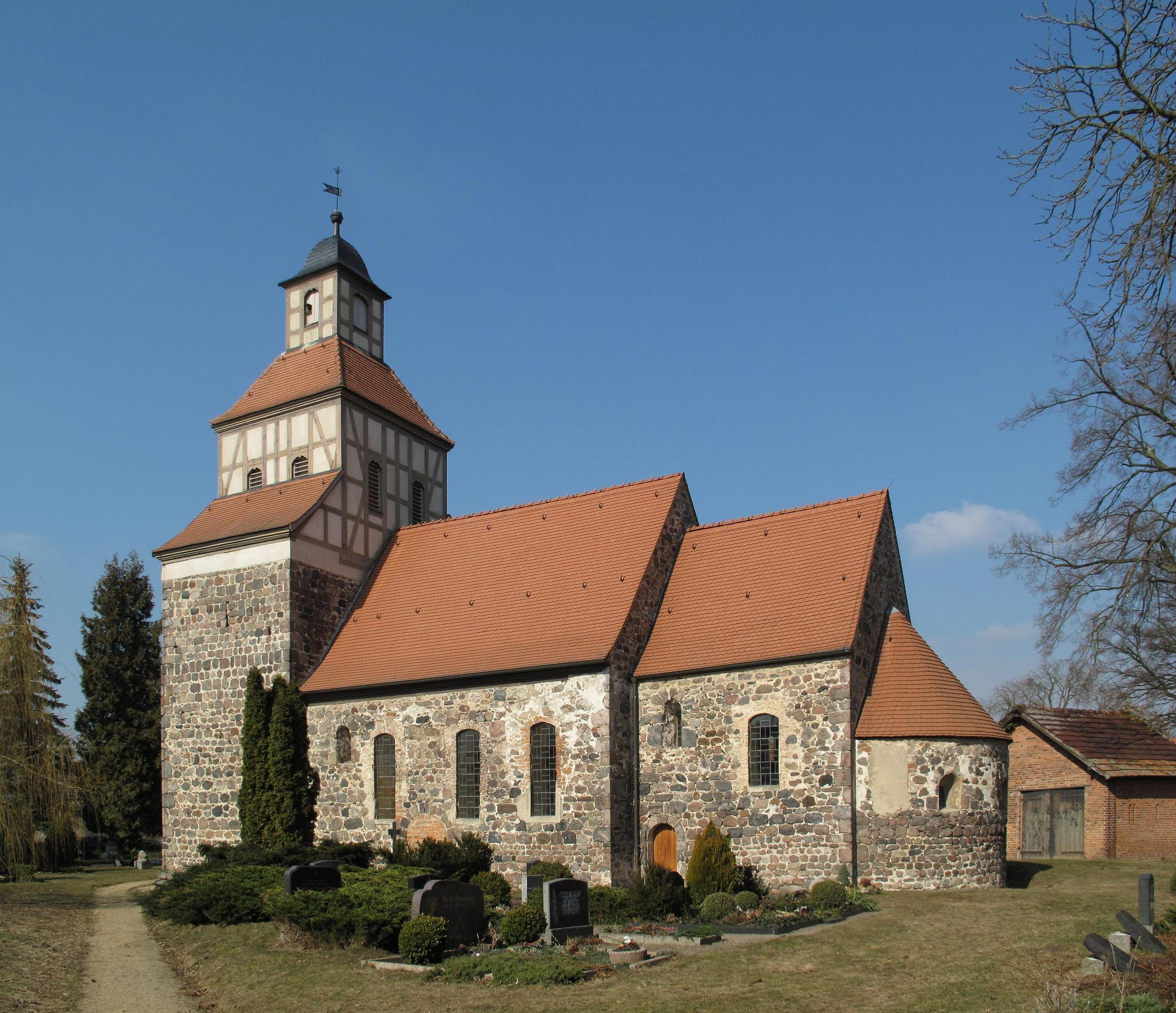 Village church Wildenbruch. Listed Fieldstone church, built in the 13th century. The timber framed addition on the center of the west tower was built in 1737 and after modifications in the meantime1992 reconstructed according to the plans from 1737. Contrary to many different depictions it is no Fortified church (german: Wehrkirche). Wildenbruch is a part of Michendorf in the district Potsdam-Mittelmark, state Brandenburg, Germany.